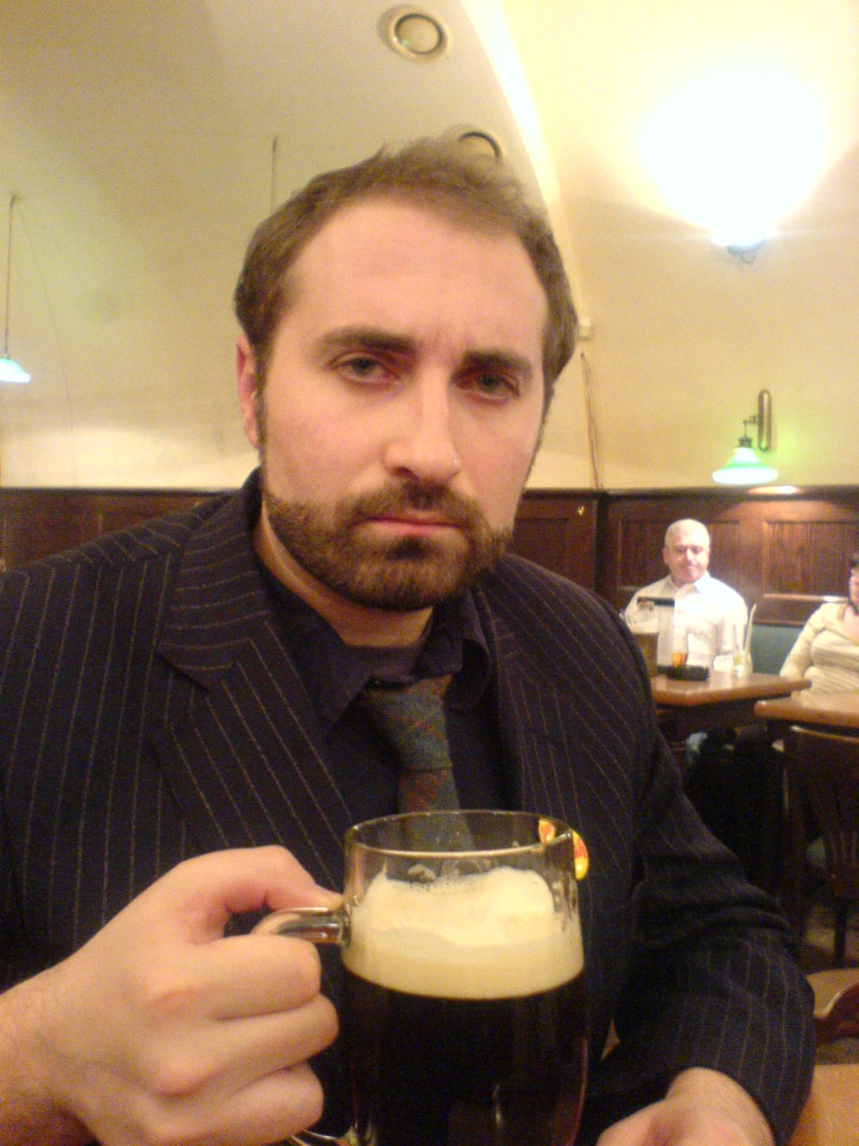 Simon Nicholls personal photograph